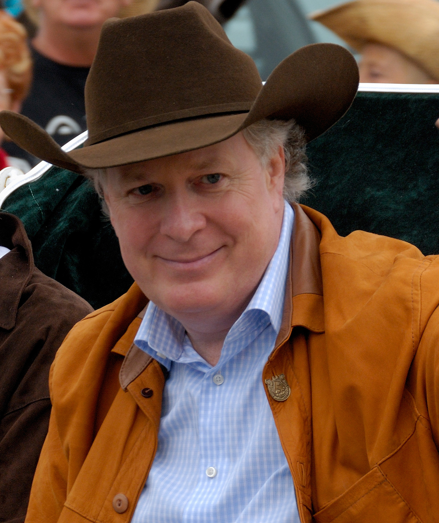 Jean Charest, Prime minister of Quebec